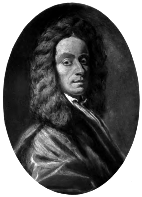 Portrait of John Spreul otherwise know as Bass John